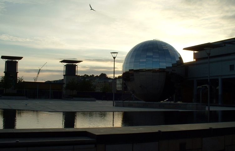 The en:@Bristol planetarium, Bristol, England